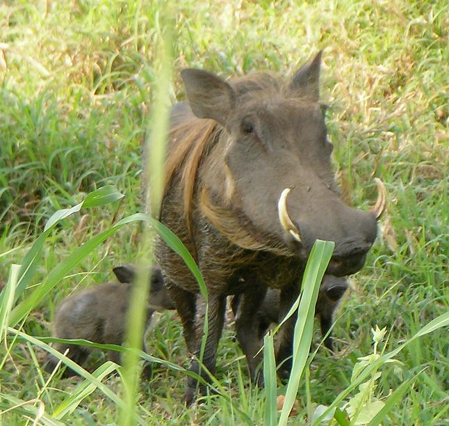 warthogs in Gorongosa National Park, Mozambique. Location provided by Garmin 60CSx handheld GPS, altimeter reading 15 meters.